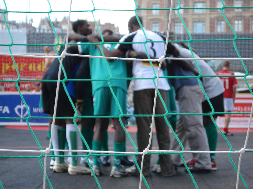 Players at the Homeless World Cup 2007 in Copenhagen, Denmark